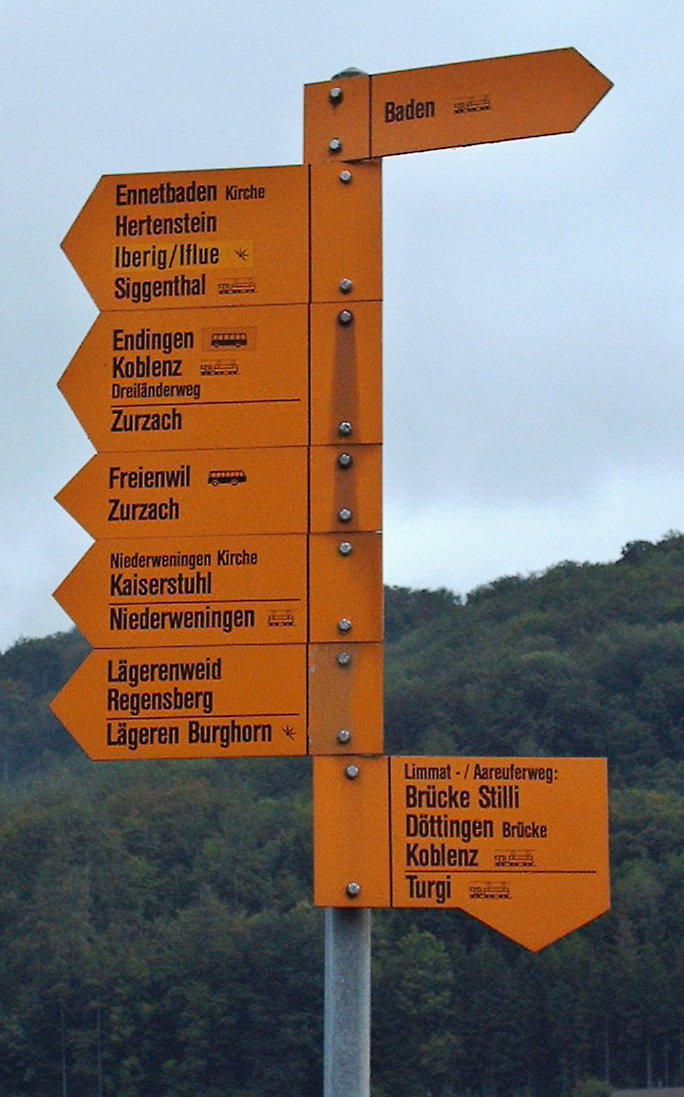 Standard signpost of hiking path at a fork in Switzerland